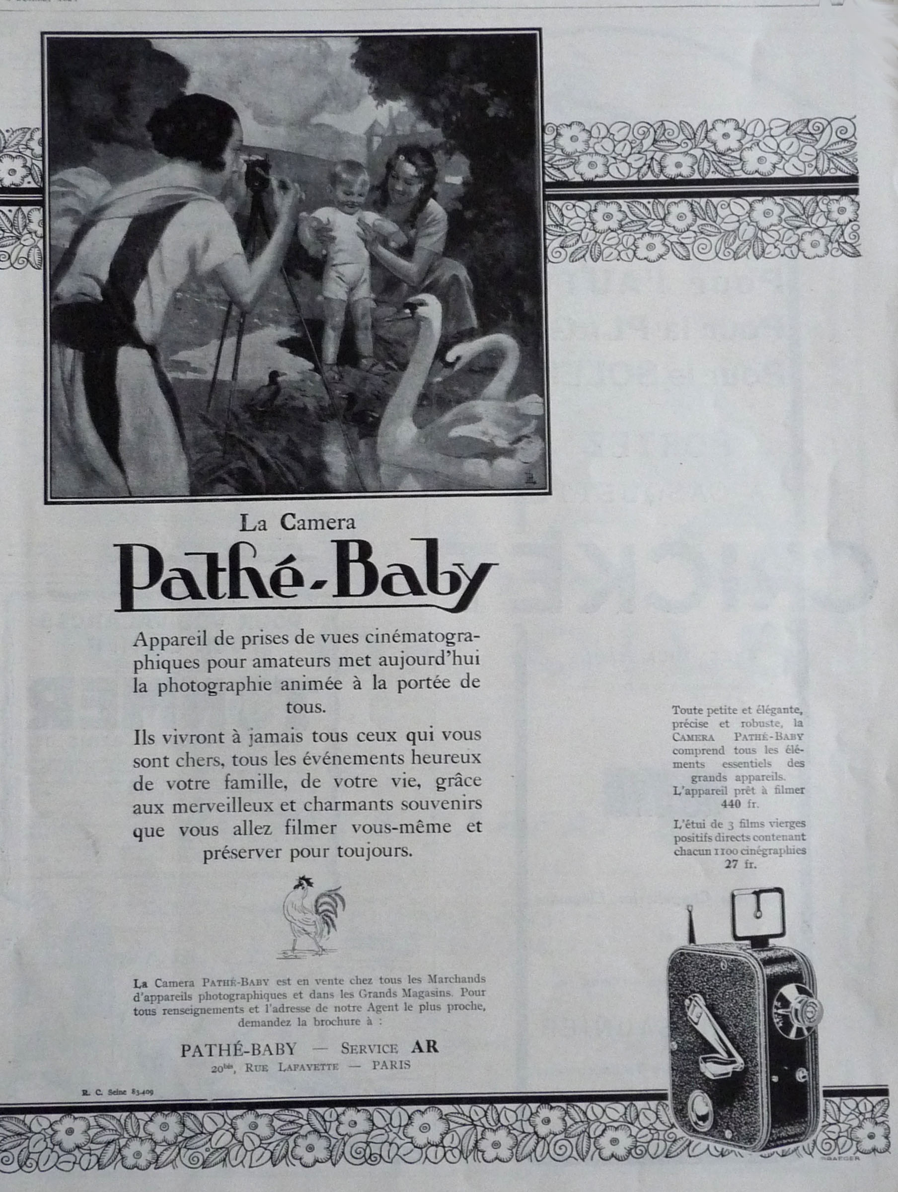 Pathé-Baby advertisement of 1924